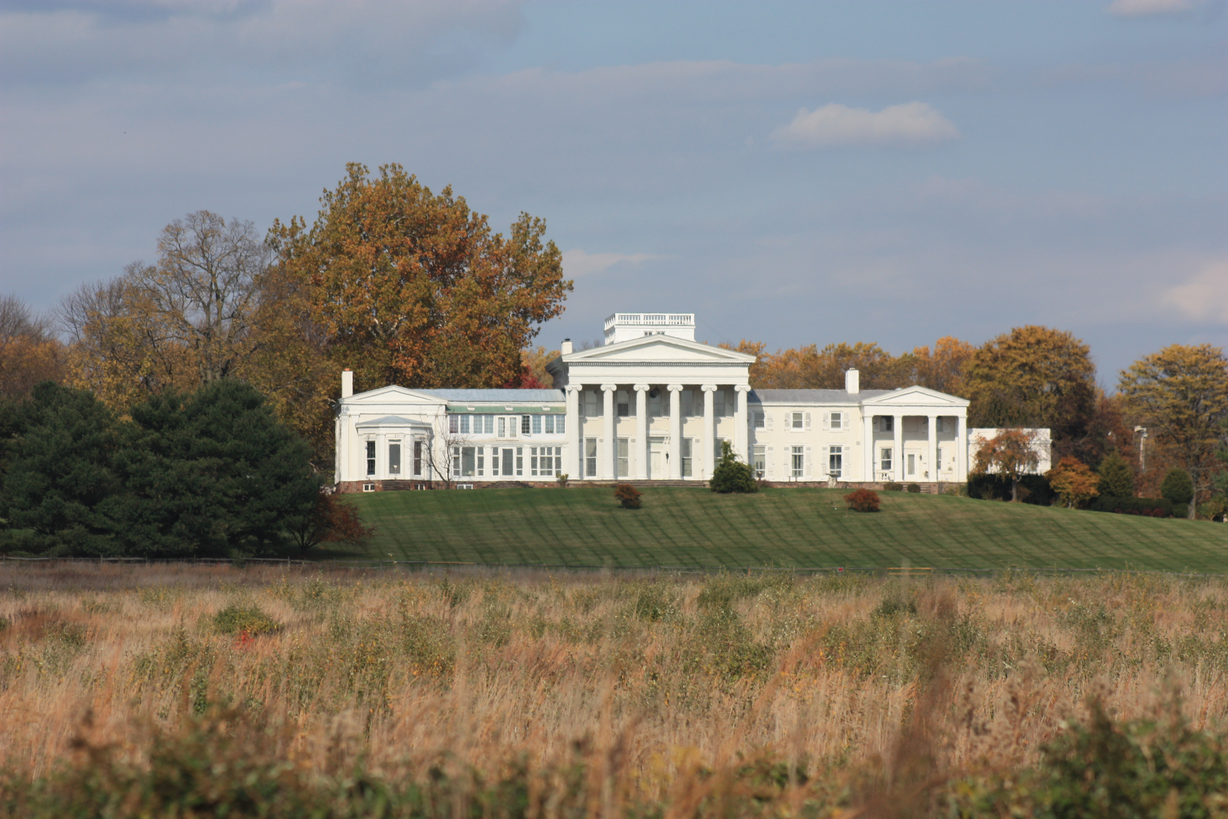 Fatlands Mansion, near Valley Forge, in Montgomery County, Pennsylvania.